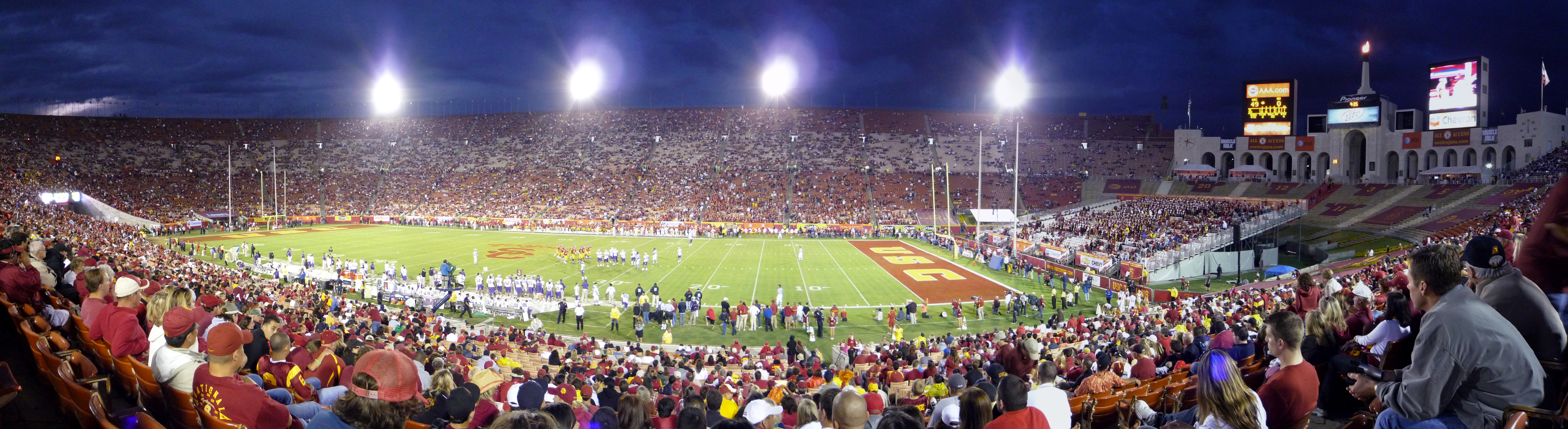 Garbage time in the fourth quarter of the college football game between the visiting Washington Huskies and the No. 6 USC Trojans at the L.A. Coliseum on November 1, 2008. With the game well out of reach, fans from both programs have already left the stadium and numerous substitutes are given playing time. USC would win, 56-0.